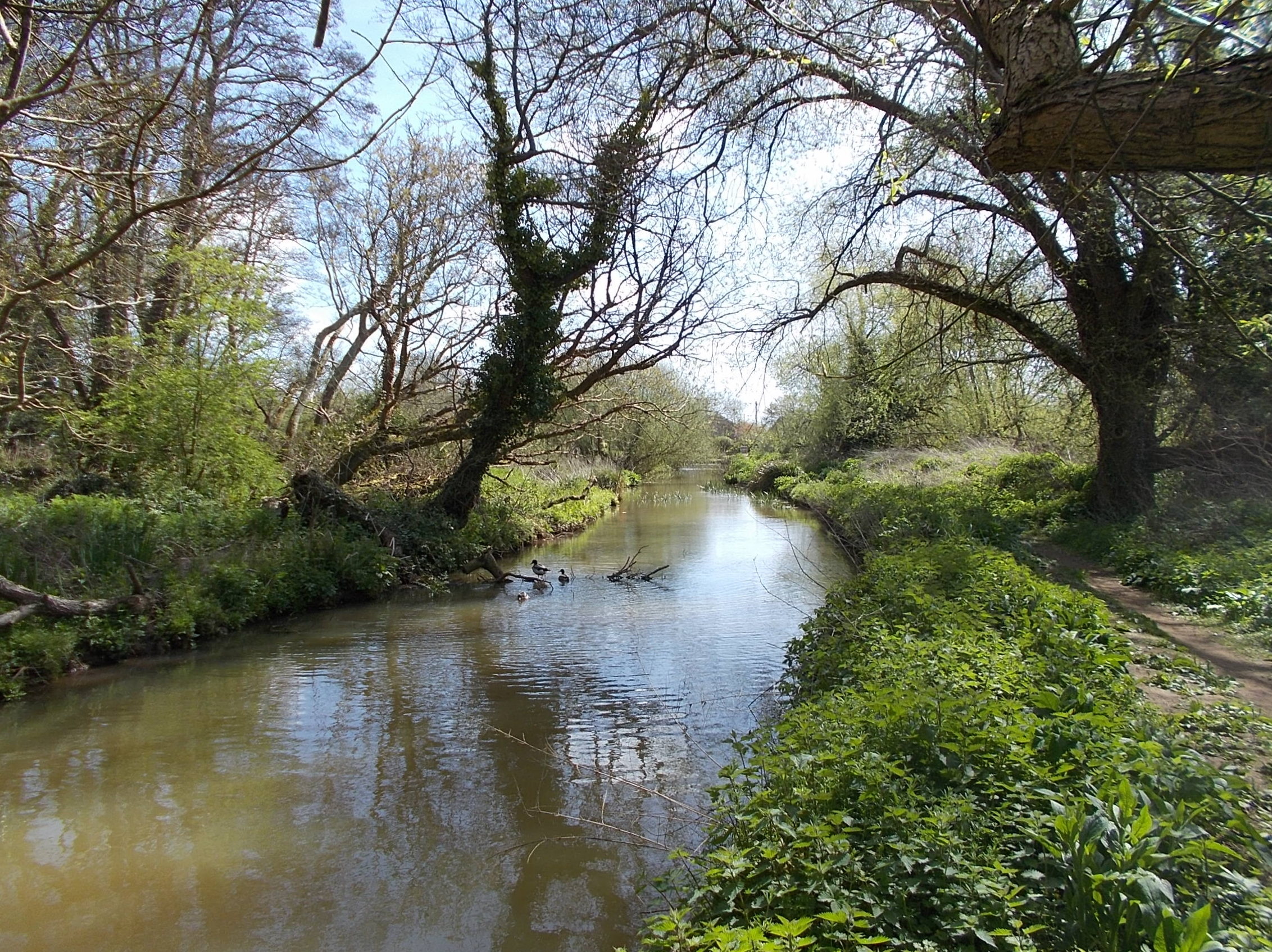 Eastern Yar River, near Alvertsone, Isle of Wight, UK